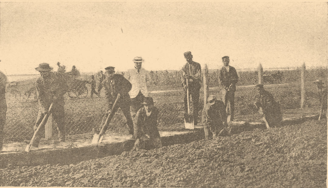 Illustration from Brockhaus and Efron Jewish Encyclopedia (1906—1913)